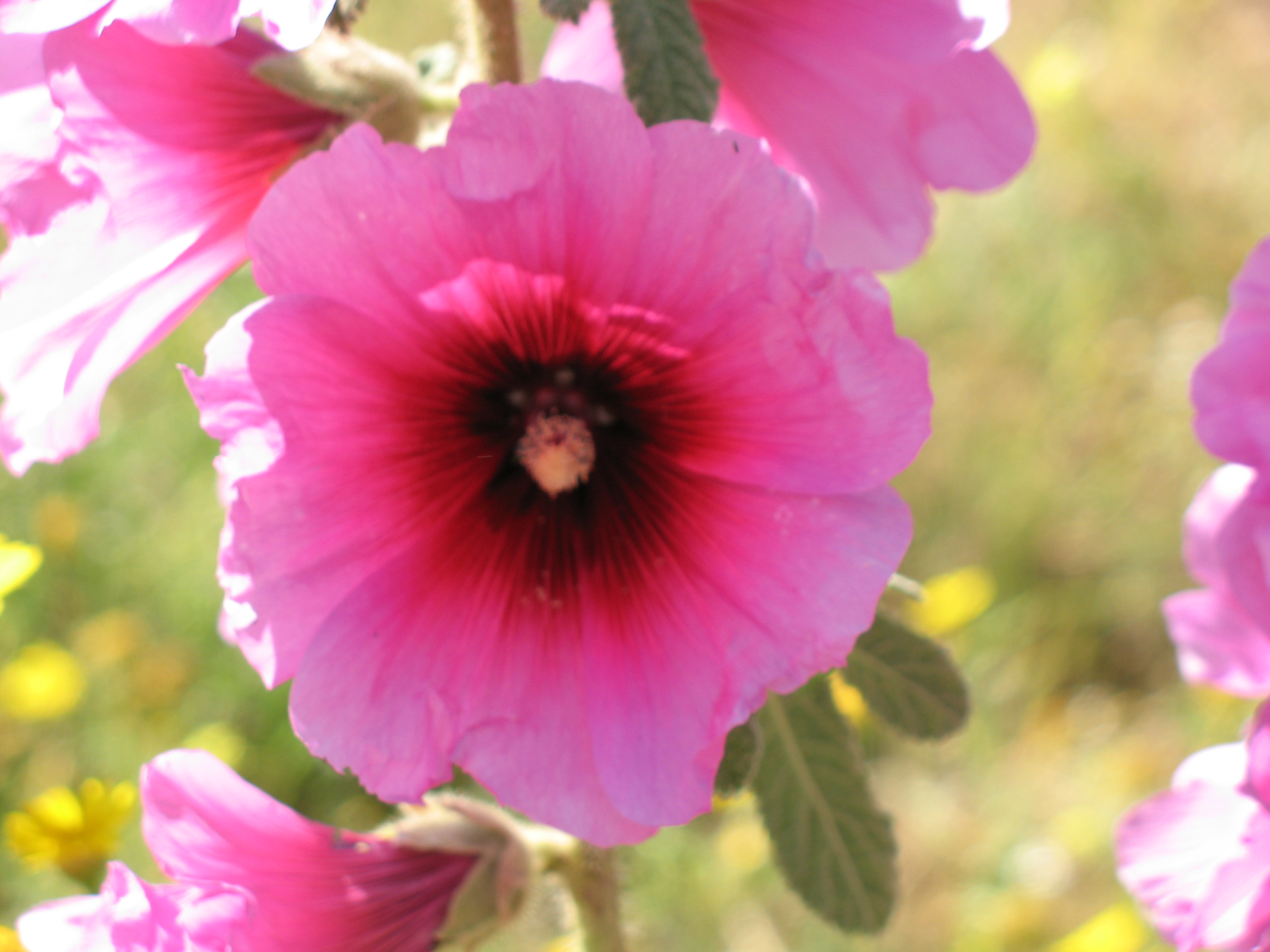 Pink flower_0705 Nazareth Village